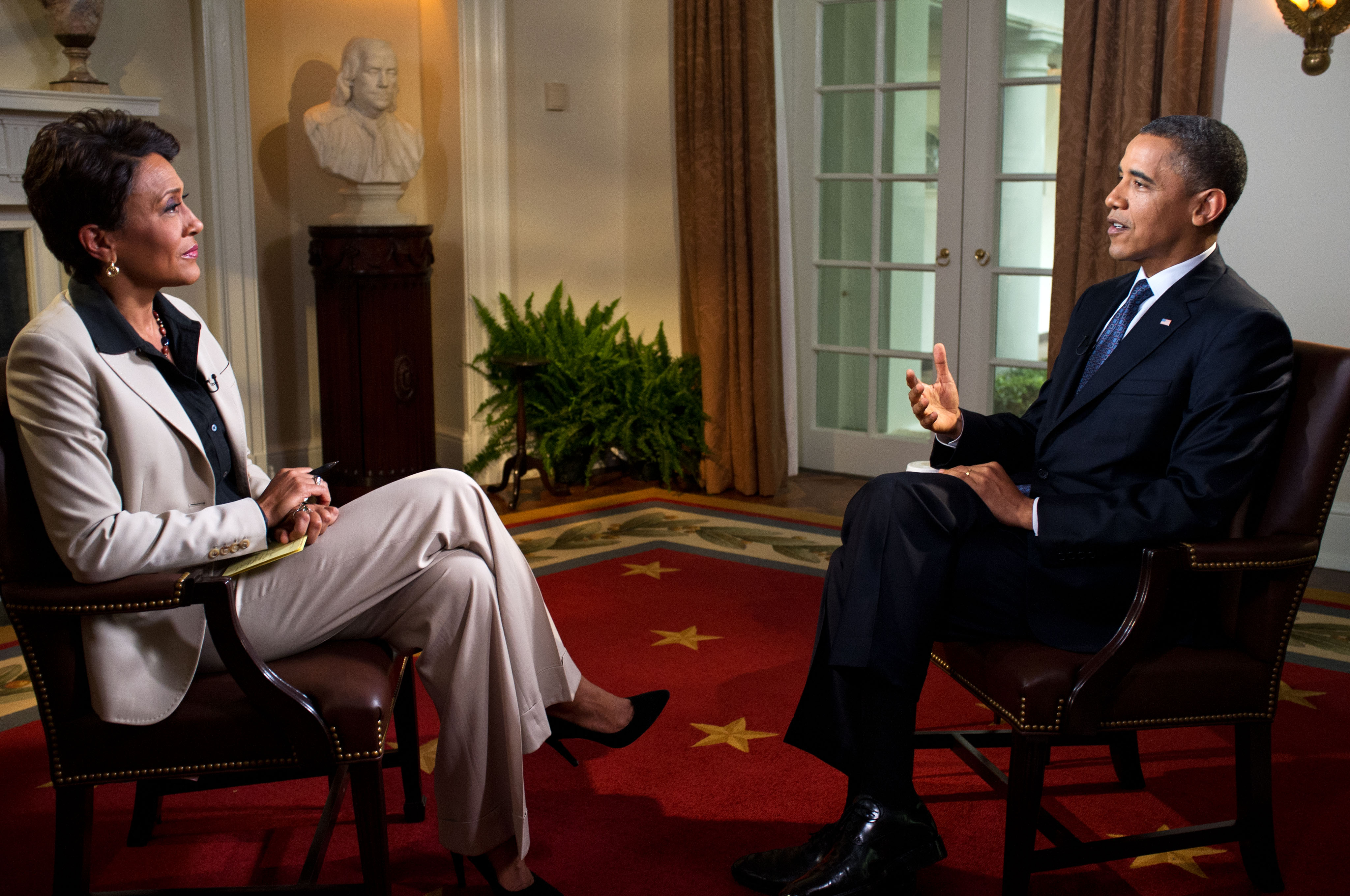 President Barack Obama participates in an interview with Robin Roberts of ABC's Good Morning America, in the Cabinet Room of the White House, May 9, 2012. (Official White House Photo by Pete Souza) This official White House photograph is in the public domain from a copyright perspective, so while restrictions such as personality or privacy rights may apply, in general, manipulations are allowed.